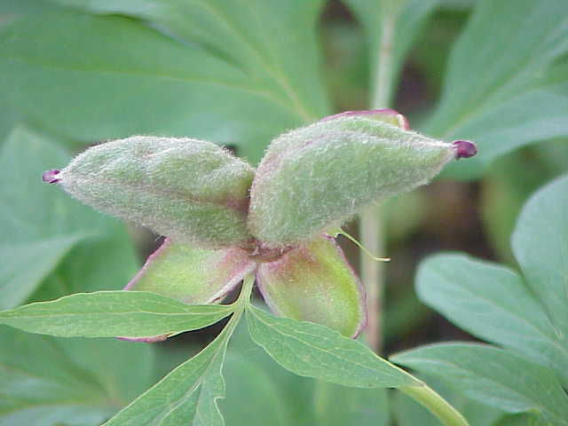 Species: Paeonia officinalis Family: Paeoniaceae Image No. 1